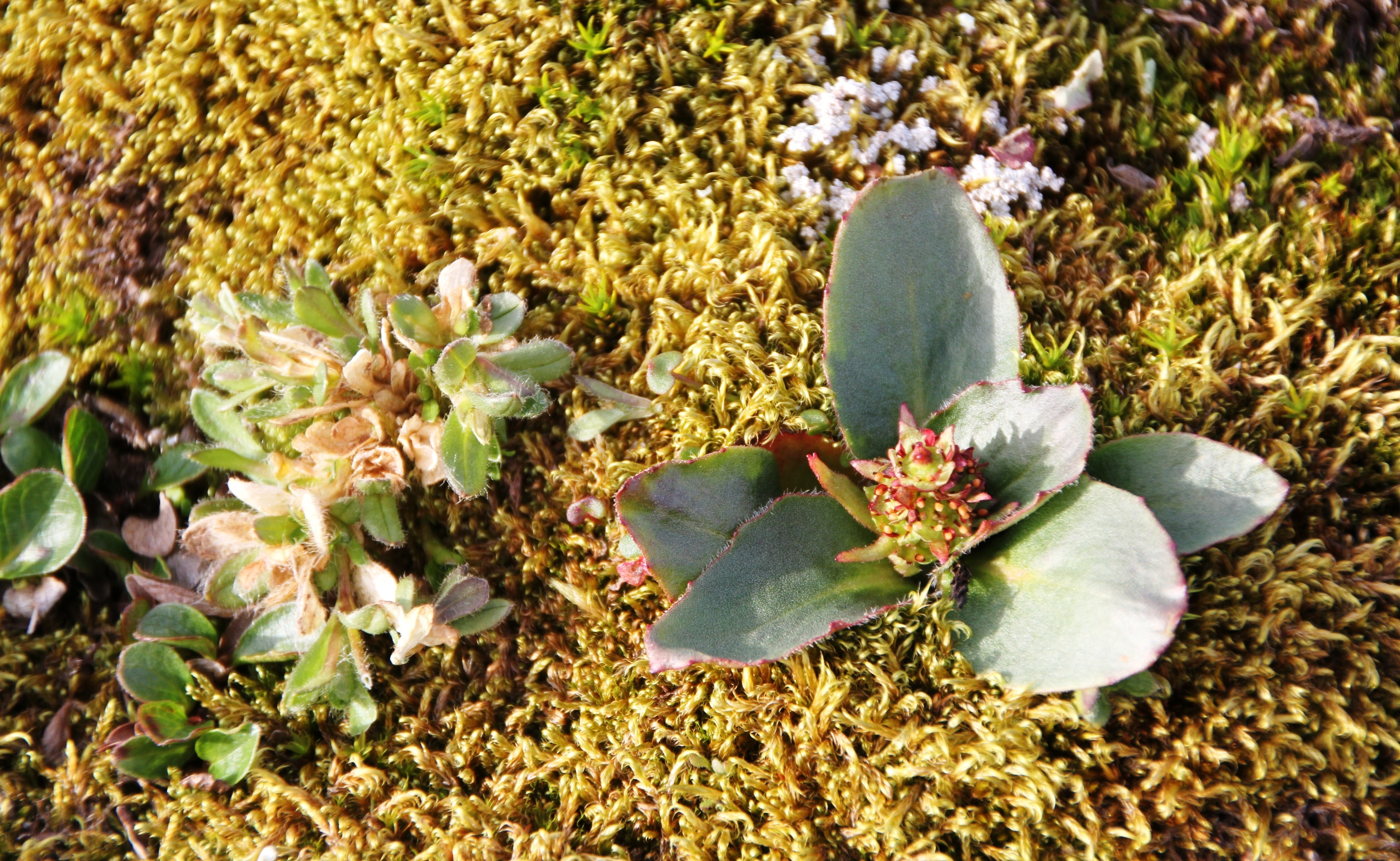 Saxifrage flowers observed at island of Spitsbergen, Svalbard (Norway). August,, 2012.